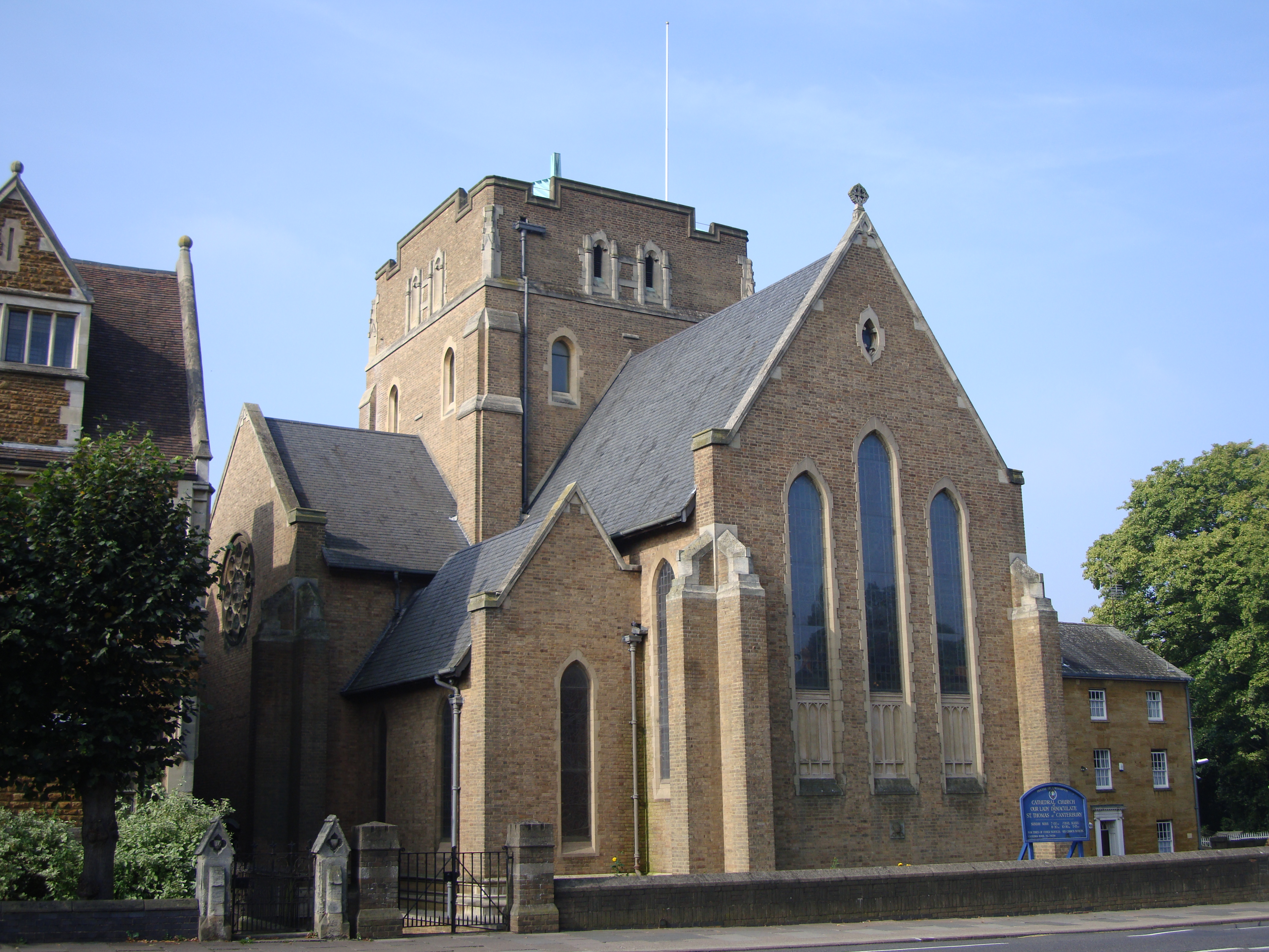 Photograph of the Roman Catholic Cathedral, Northampton, England